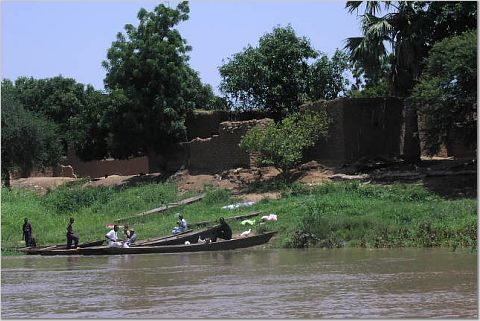 This image was photographed in 2004. This image was photographed by Rebecca Musarra, who also uploaded it to Wikipedia.